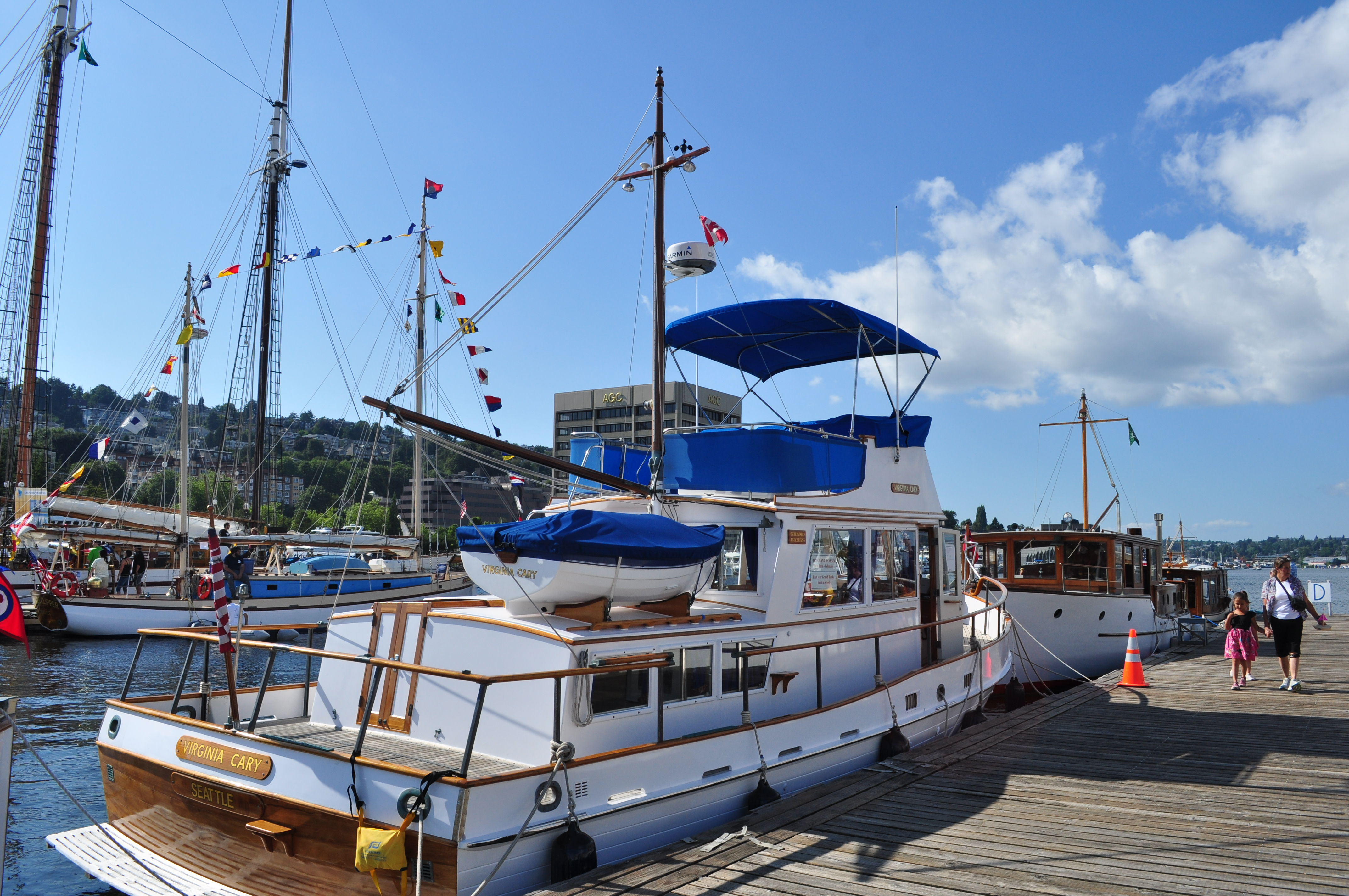 The Virginia Cary, originally a trawler, built in 1973 by Grand Banks in Seattle, the last year that Grand Banks built wooden boats. Refitted as a motor yacht. A "Grand Banks 36": 36' length, 12' beam, 4' draft, twin Ford Lehman diesel engines. Photographed at Northwest Seaport, Lake Union Park, Seattle, Washington, USA during the 2013 Lake Union Wooden Boat Festival.